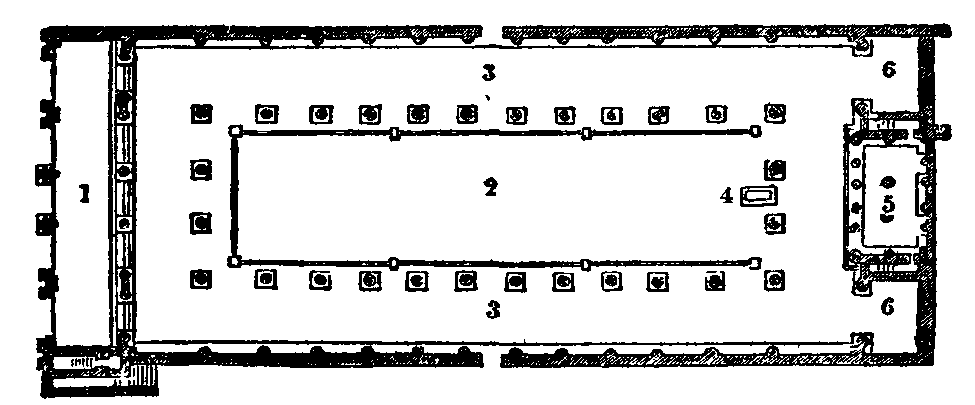 Illustration from 1911 Encyclopædia Britannica, article BASILICA. Fig. 1.—Basilica at Pompeii. 1, Portico (Chalcidicum); 2, hall of basilica; 3, aisles; 4, altar; 5, tribunal; 6, offices.